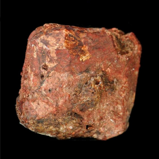 This rock probably contains on the order of a few atoms of francium at any one time, as part of the complex decay chains of the thorium and uranium that make up a much larger fraction of the sample.